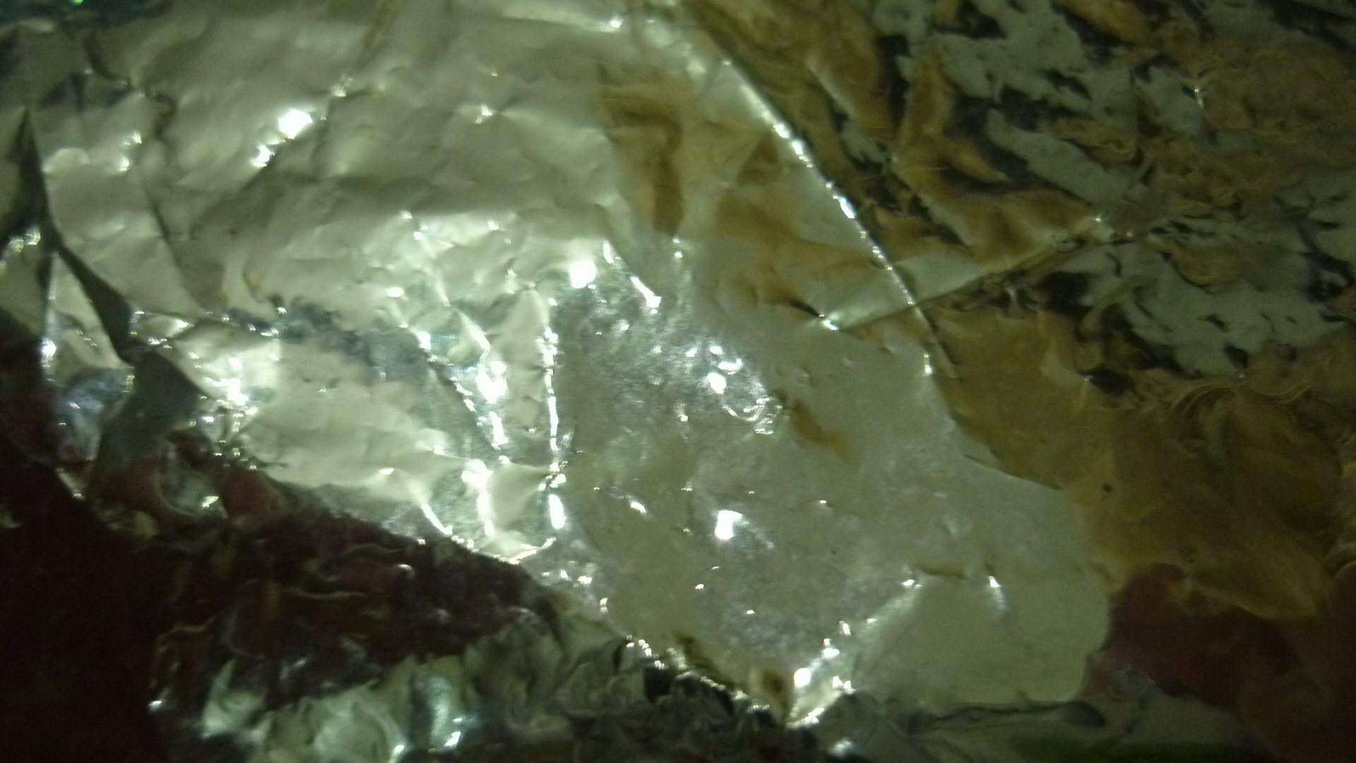 A piece of AstroSolar.